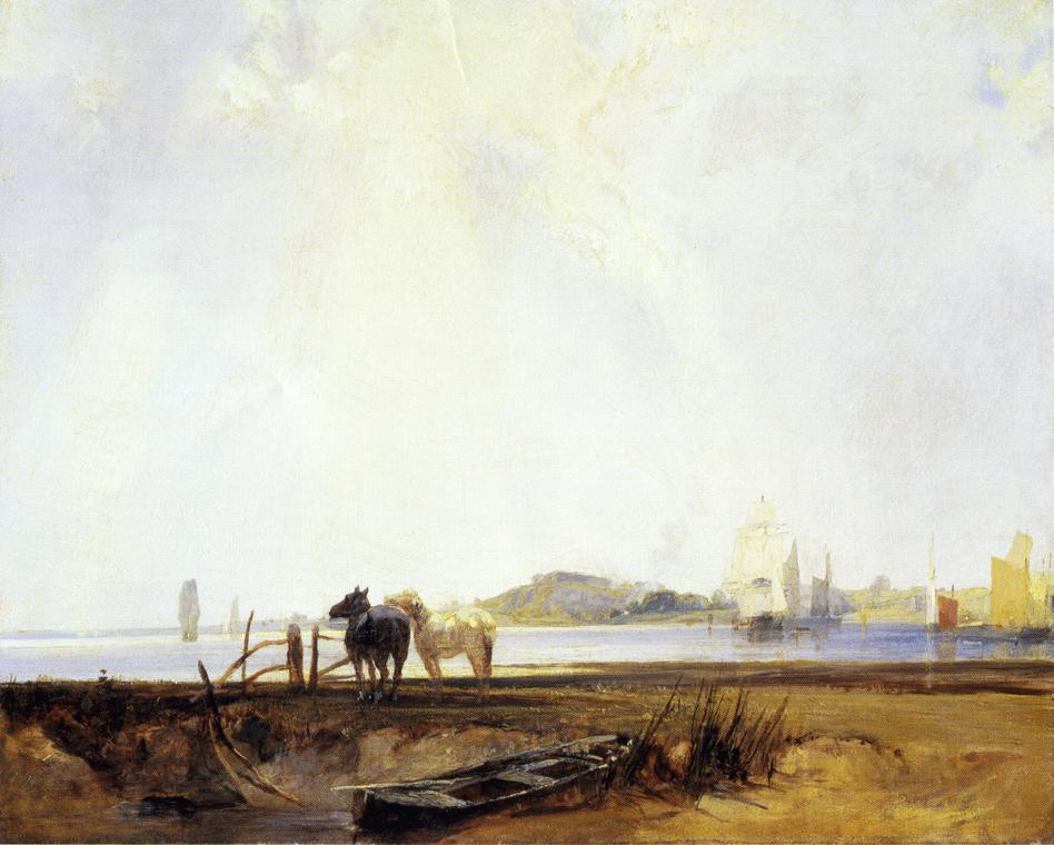 "Landscape near Quilleboeuf," oil on canvas, by the English painter Richard Parkes Bonington. Courtesy of the Yale Center for British Art, New Haven, Connecticut.